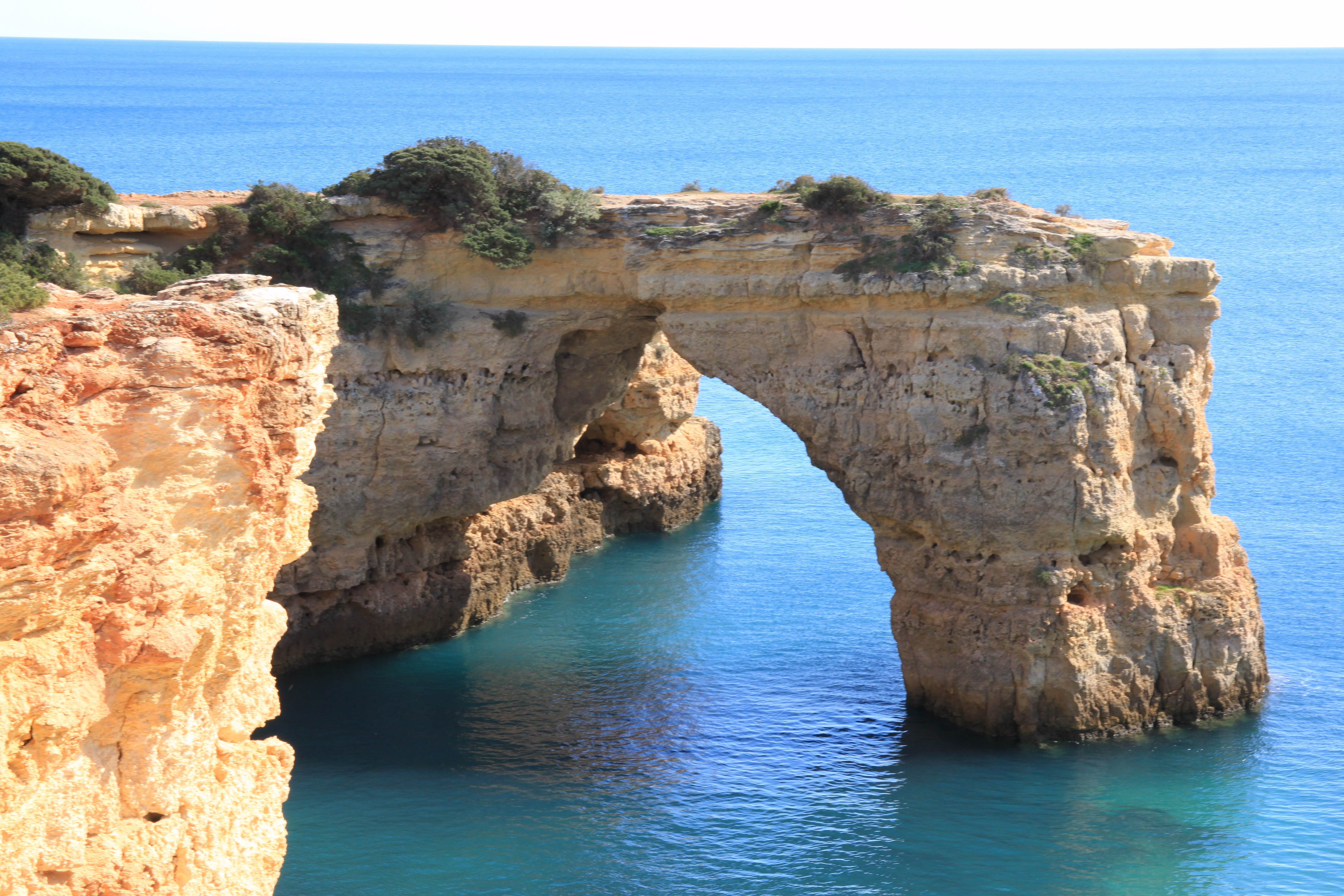 Portugal - Porches - arch